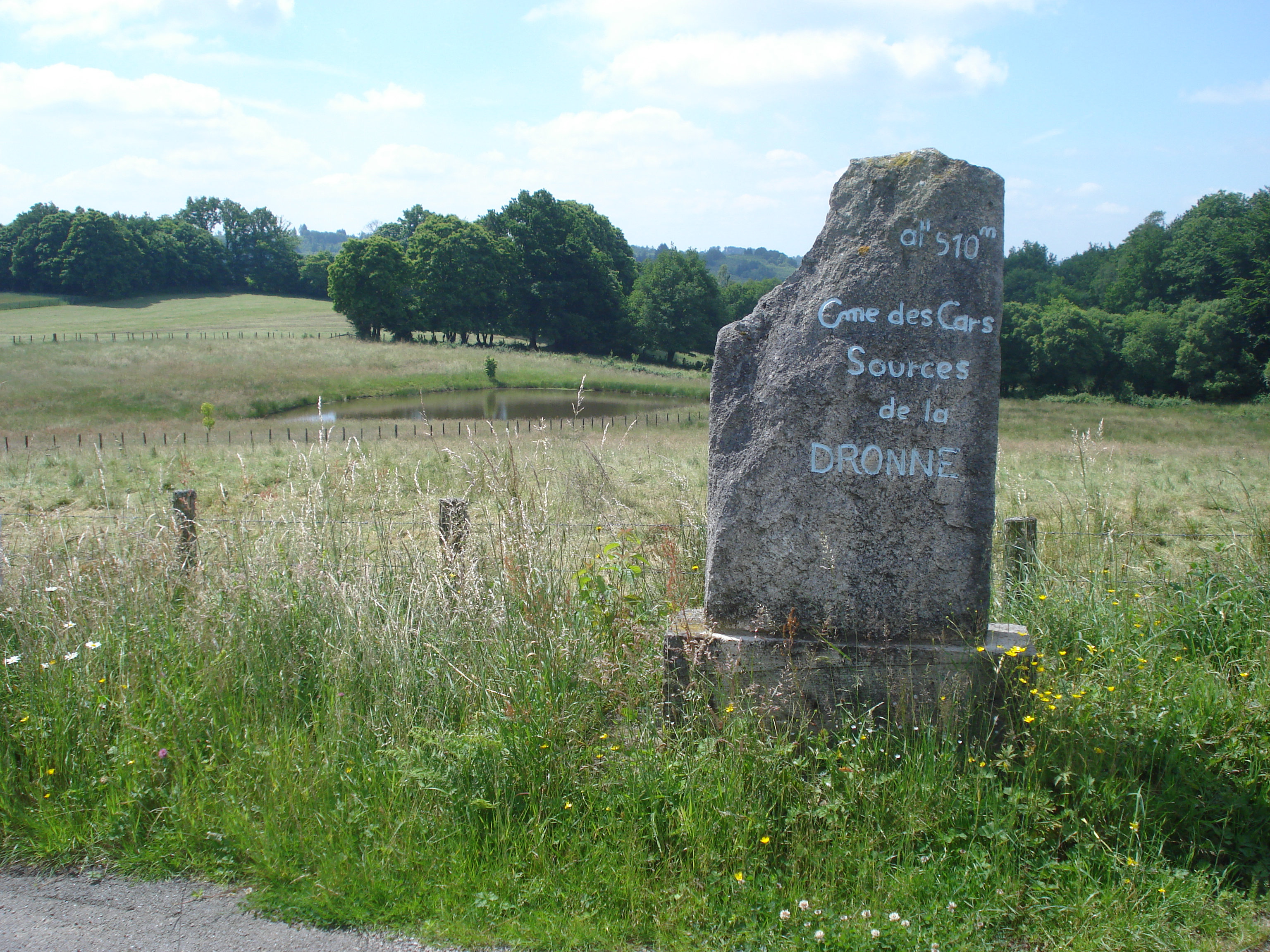 Les_Cars (Haute-Vienne, Fr), monument source of the Dronne river